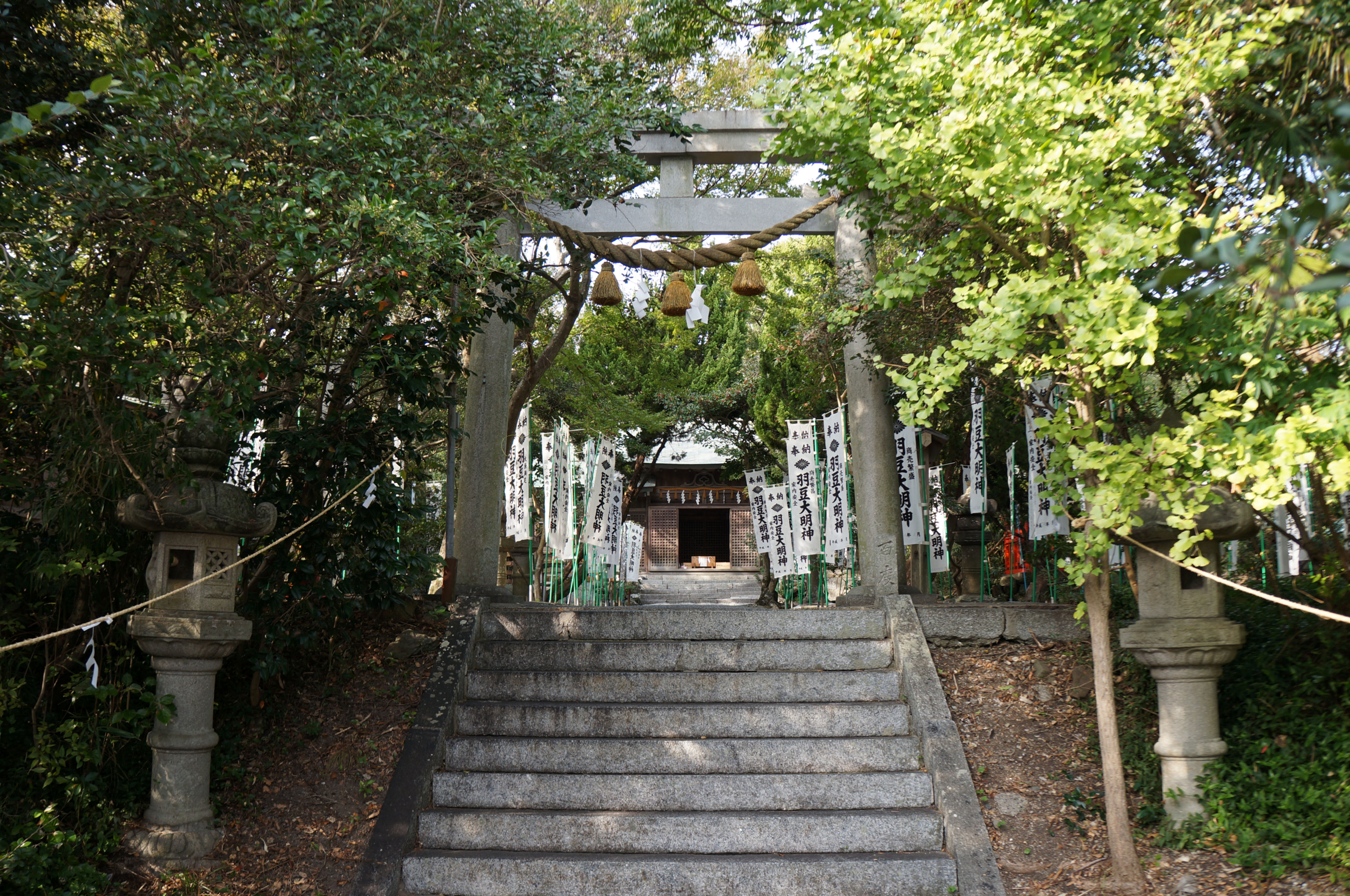 Hazu Shrine in Hazu Cape, Aichi prefecture Japan